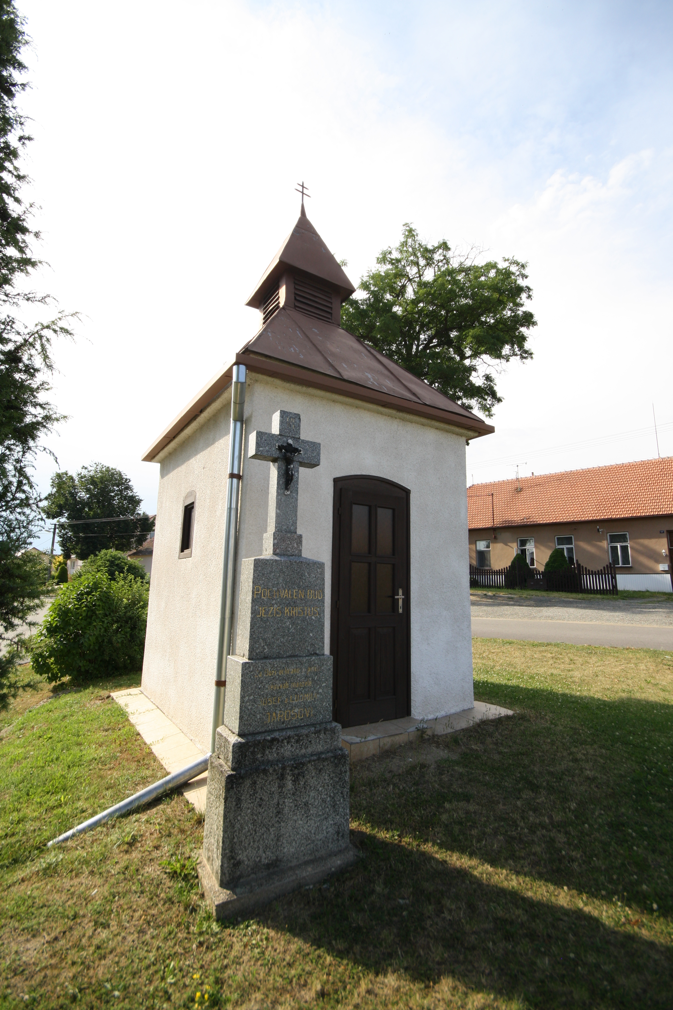 Belltower and cross in Ocmanice, Třebíč District.